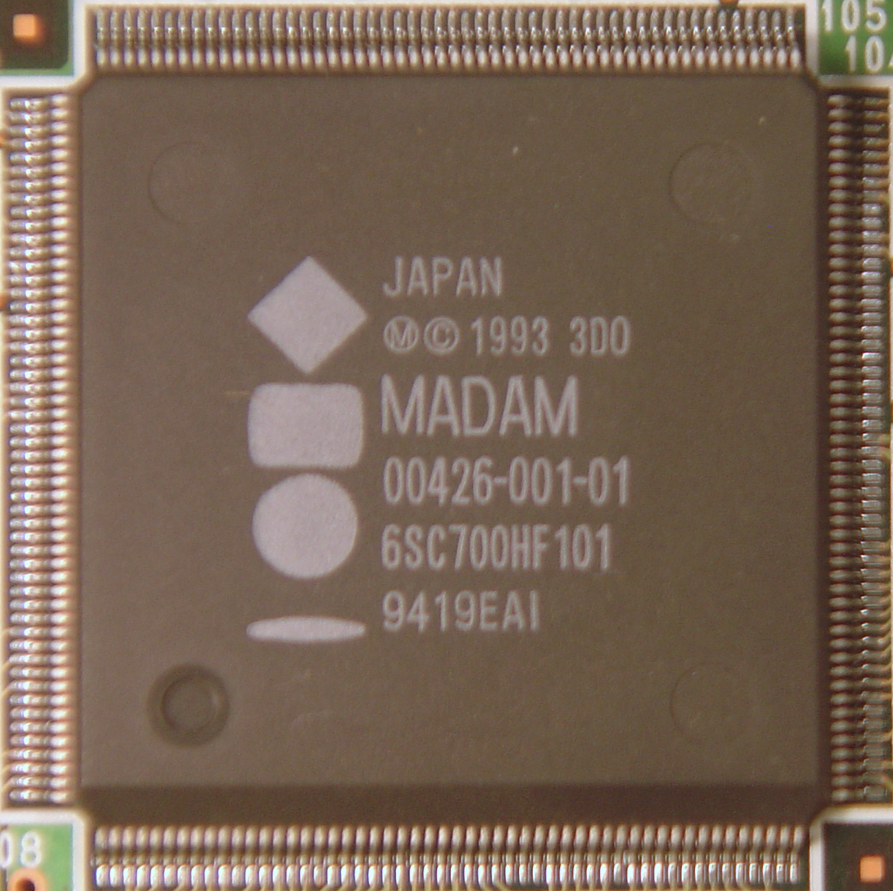 Madam Graphics Accelerator inside a Panasonic REAL 3DO Interactive Multiplayer FZ-1